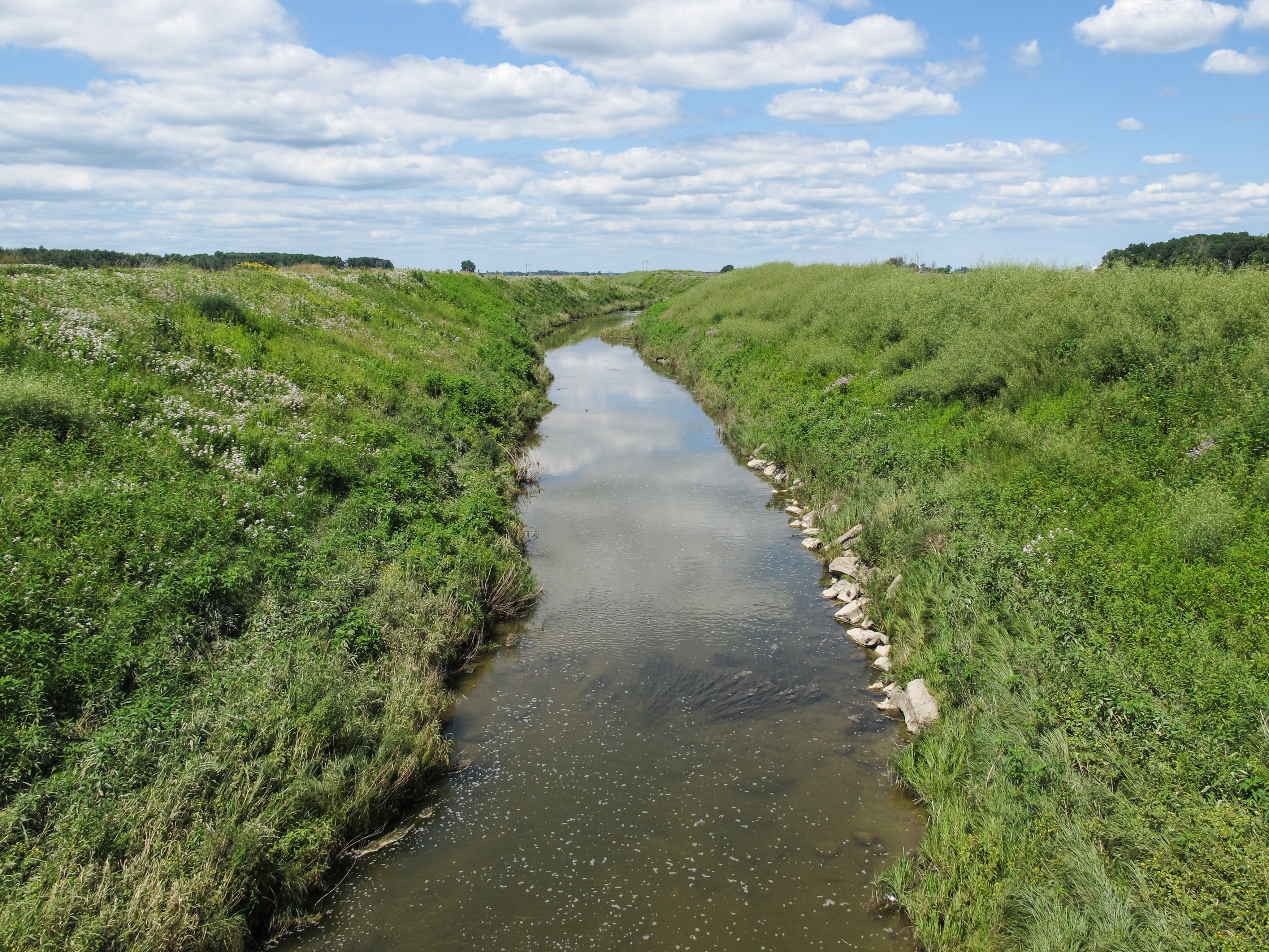 Misteguay Creek as viewed from the north side of West Burt Road in Albee Township in Saginaw County, Michigan